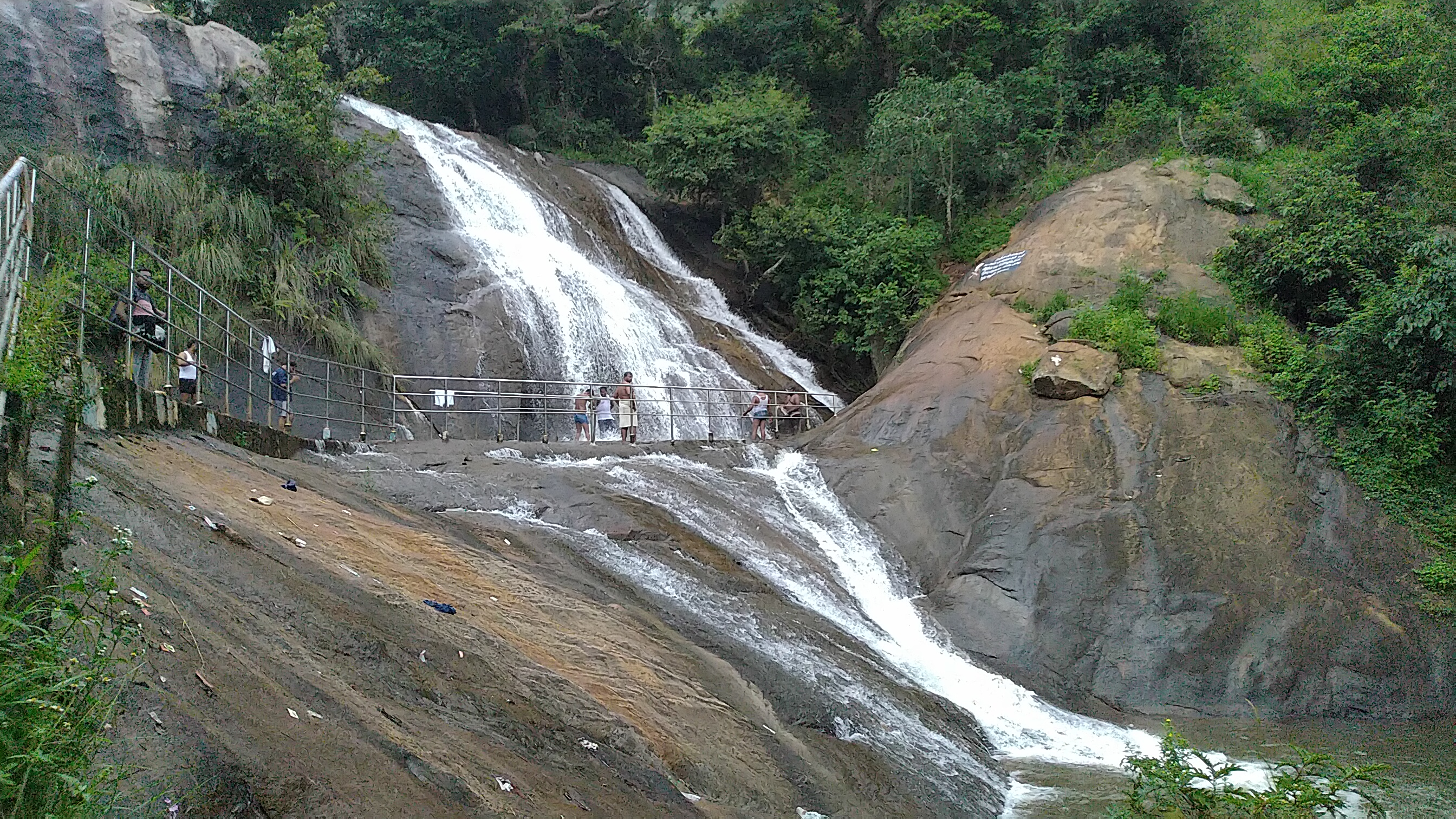 The Masila waterfalls on Kolli Hills, Namakkal